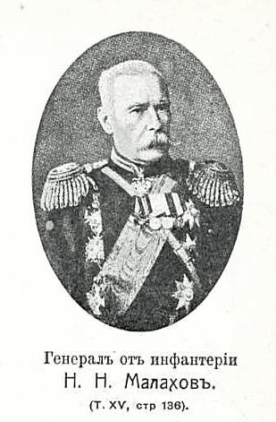 General of the Russian Empire Malachov.